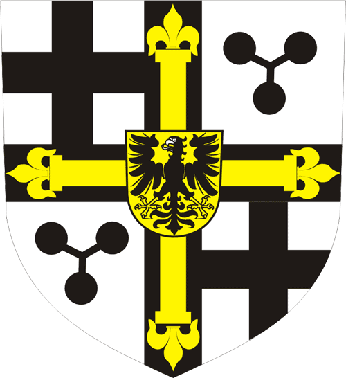 Teutonic Order - Coat of Arms of the Grandmaster Wolfgang Schutzbar